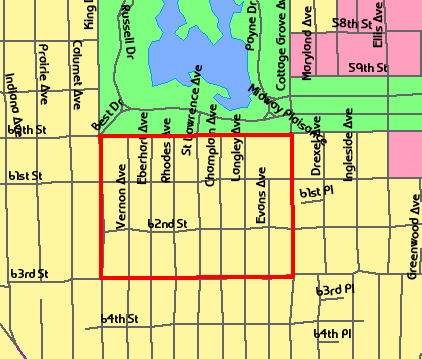 Map of the location of Washington Park Subdivision